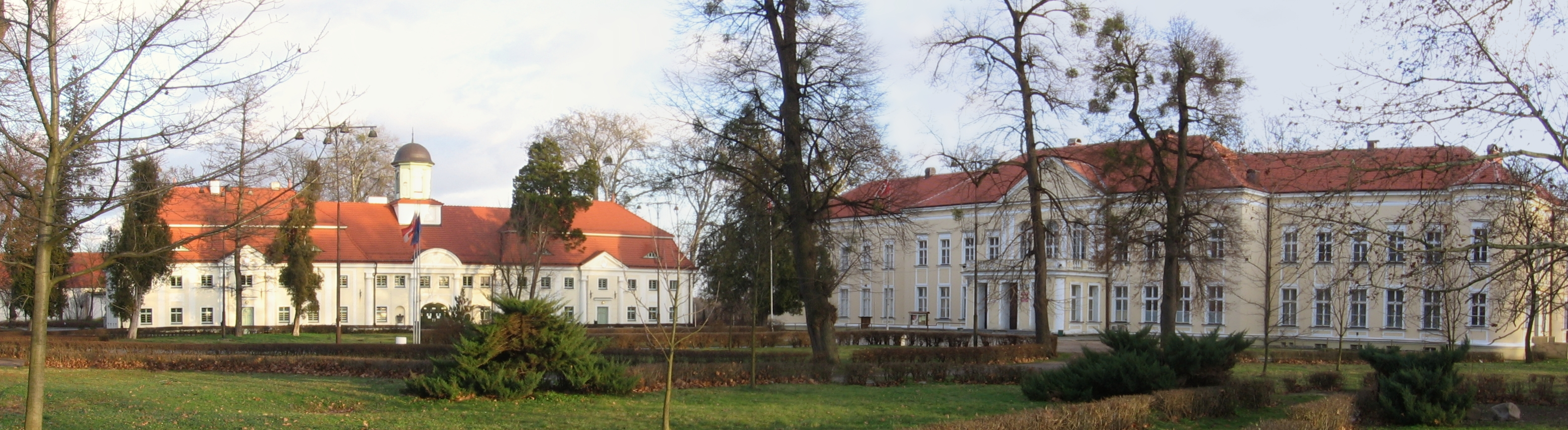 town Brzeg Dolny (former Dyhernfurth), Poland the mansion, now town cultural center and community administration